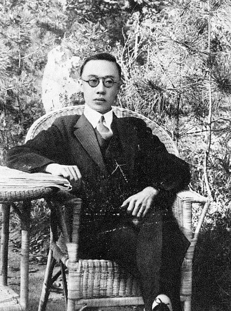 Aisin-Gioro Puyi